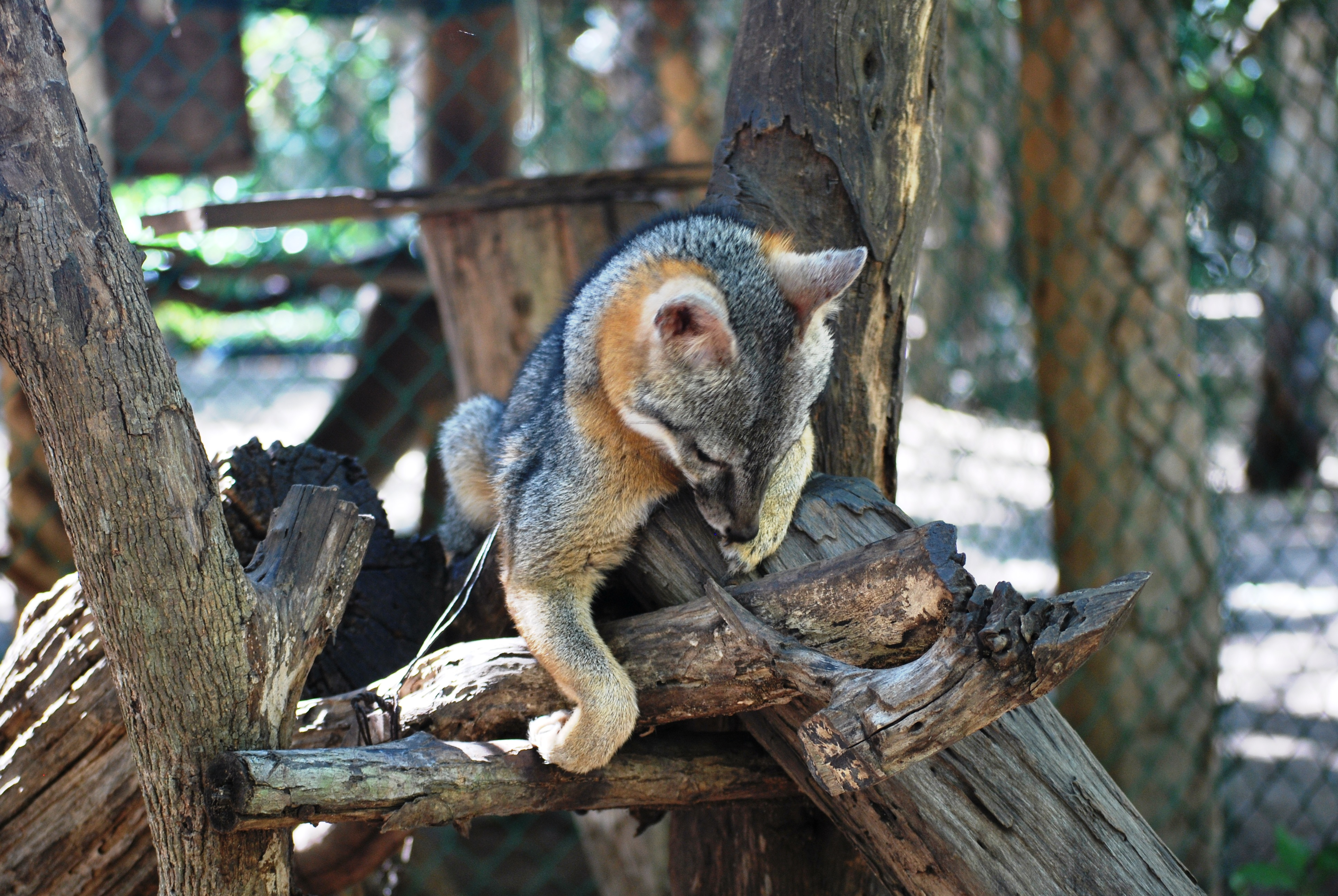 Fox in captivity on Uma Island in the lagoon of La Ventanilla, Tonameca, Oaxaca, Mexico